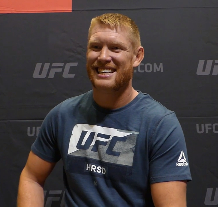 Sam Alvey is happy in his new home at light heavyweight and is not planning on opponent Jimmy Crute 'getting his black belt off of submitting me'.